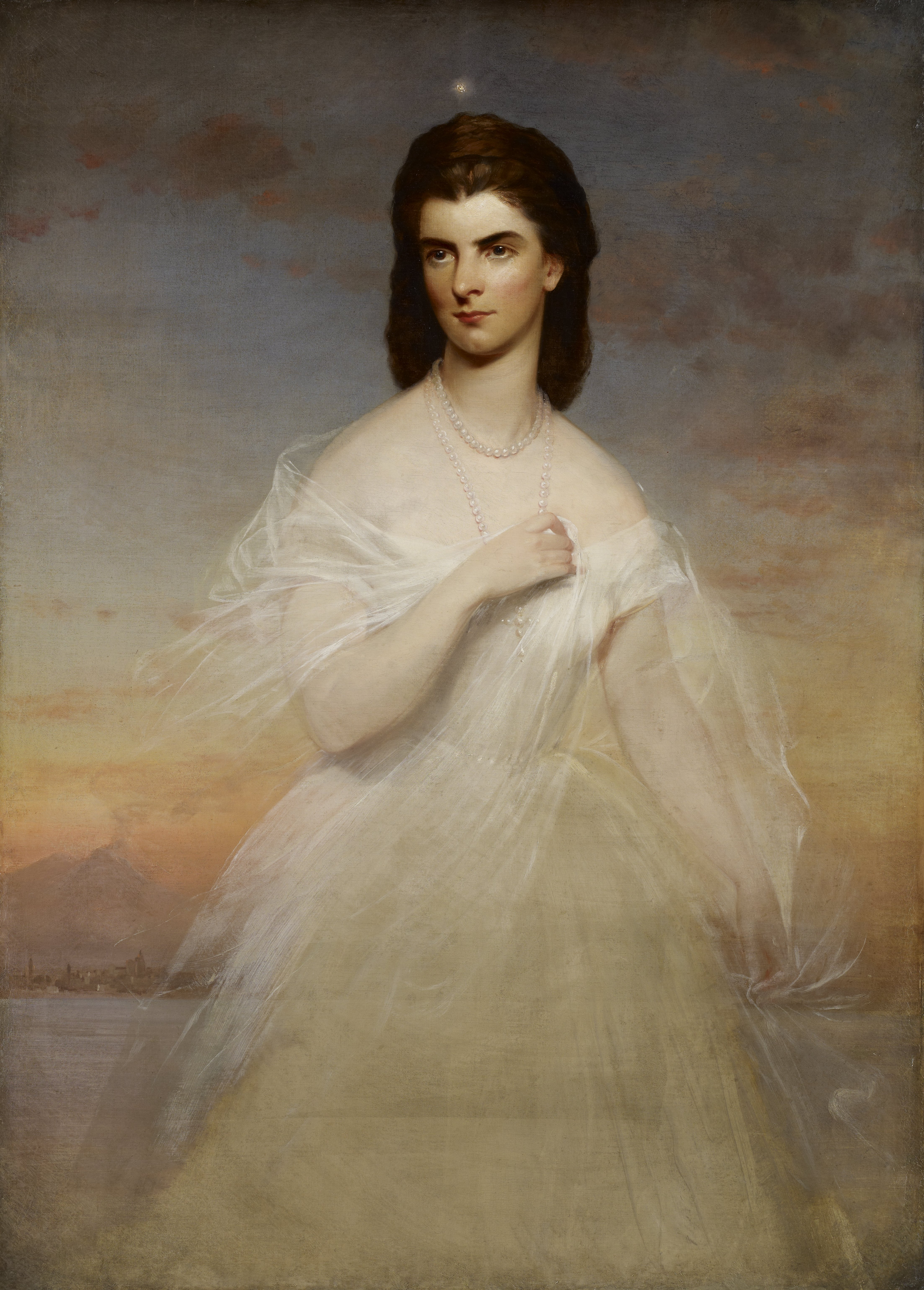 Three quarter length portrait of a woman.